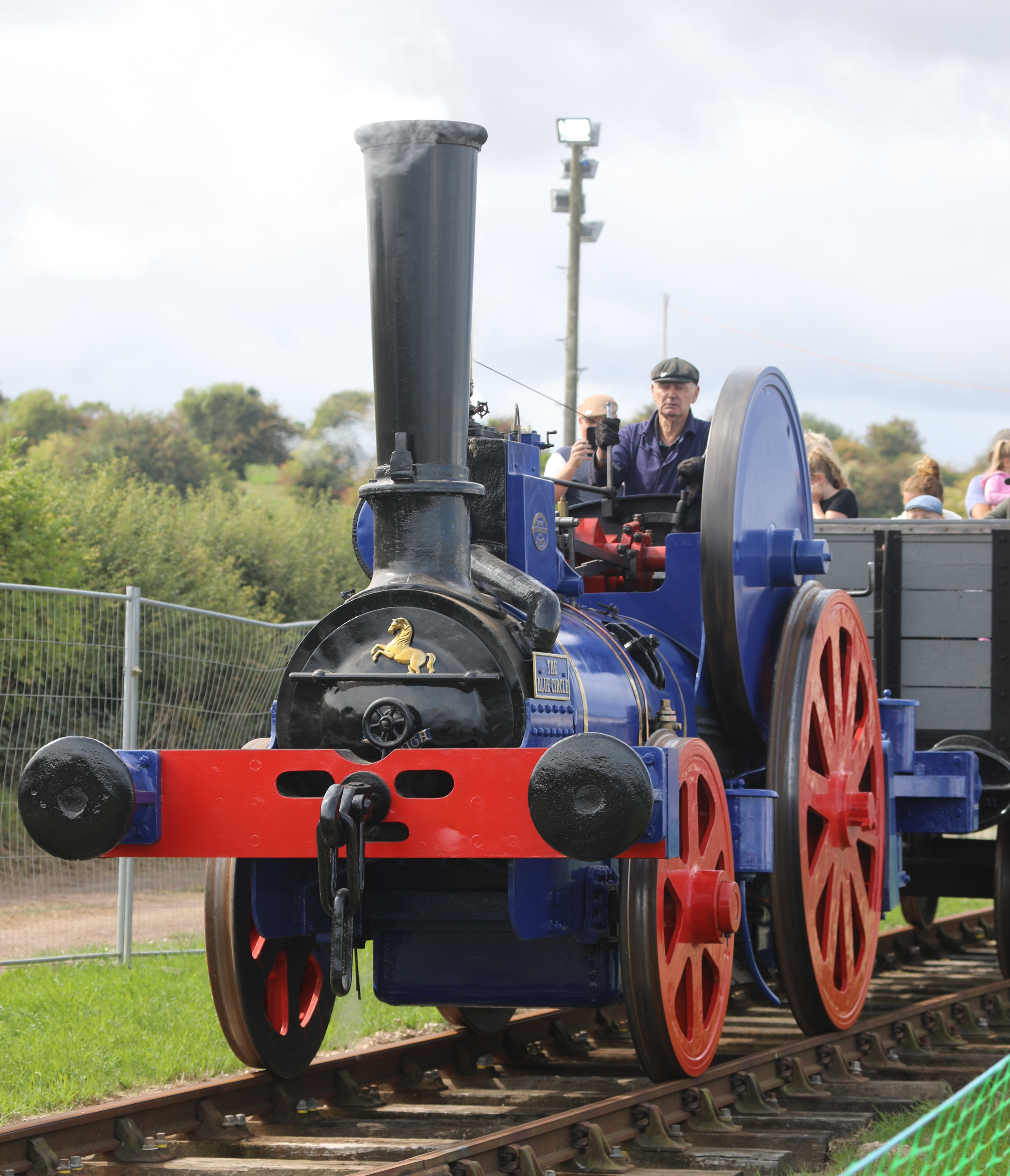 Photo of the Aveling and Porter traction engine based 10NHP locamotive The Blue Circle No.9449